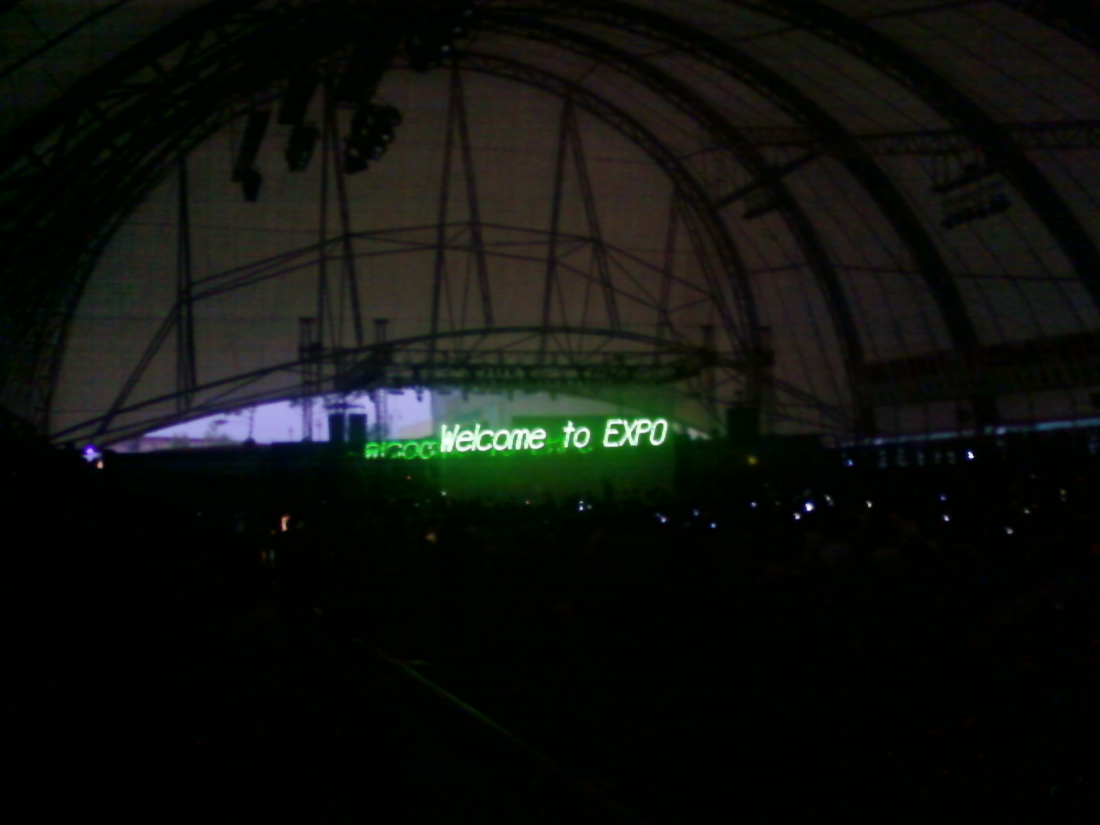 Opening Ceremony of 4th World Taekwondo Culture Expo in Muju, Korea